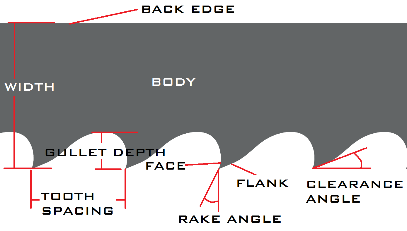 Sawing and separating processes